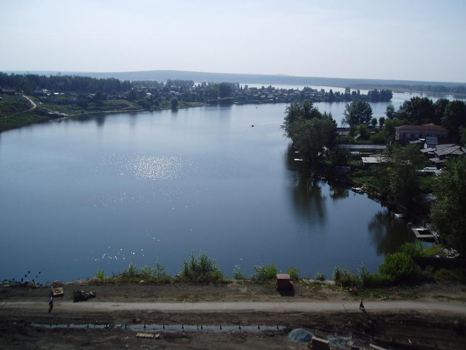 Nevyansk: view on Neiva river from inclined tower (2005)